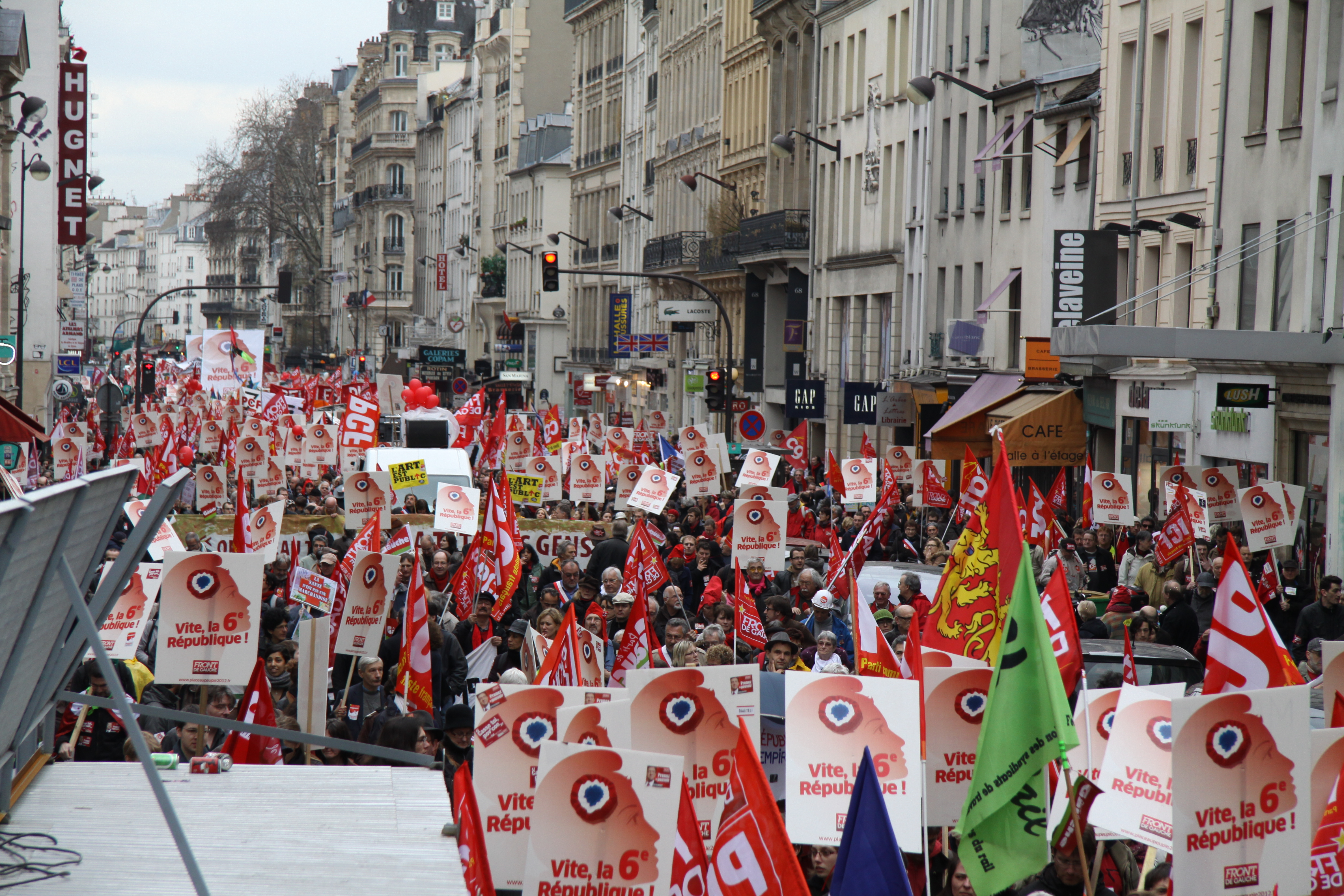 French Communist Party's meeting for the 2012 French presidential election, Paris, France